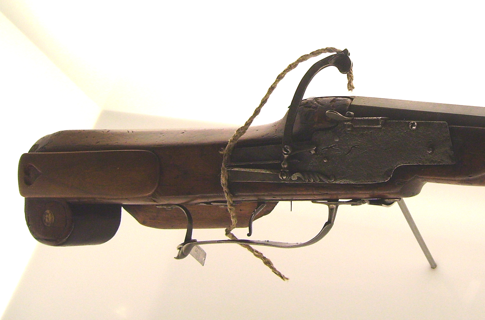 Matchlock